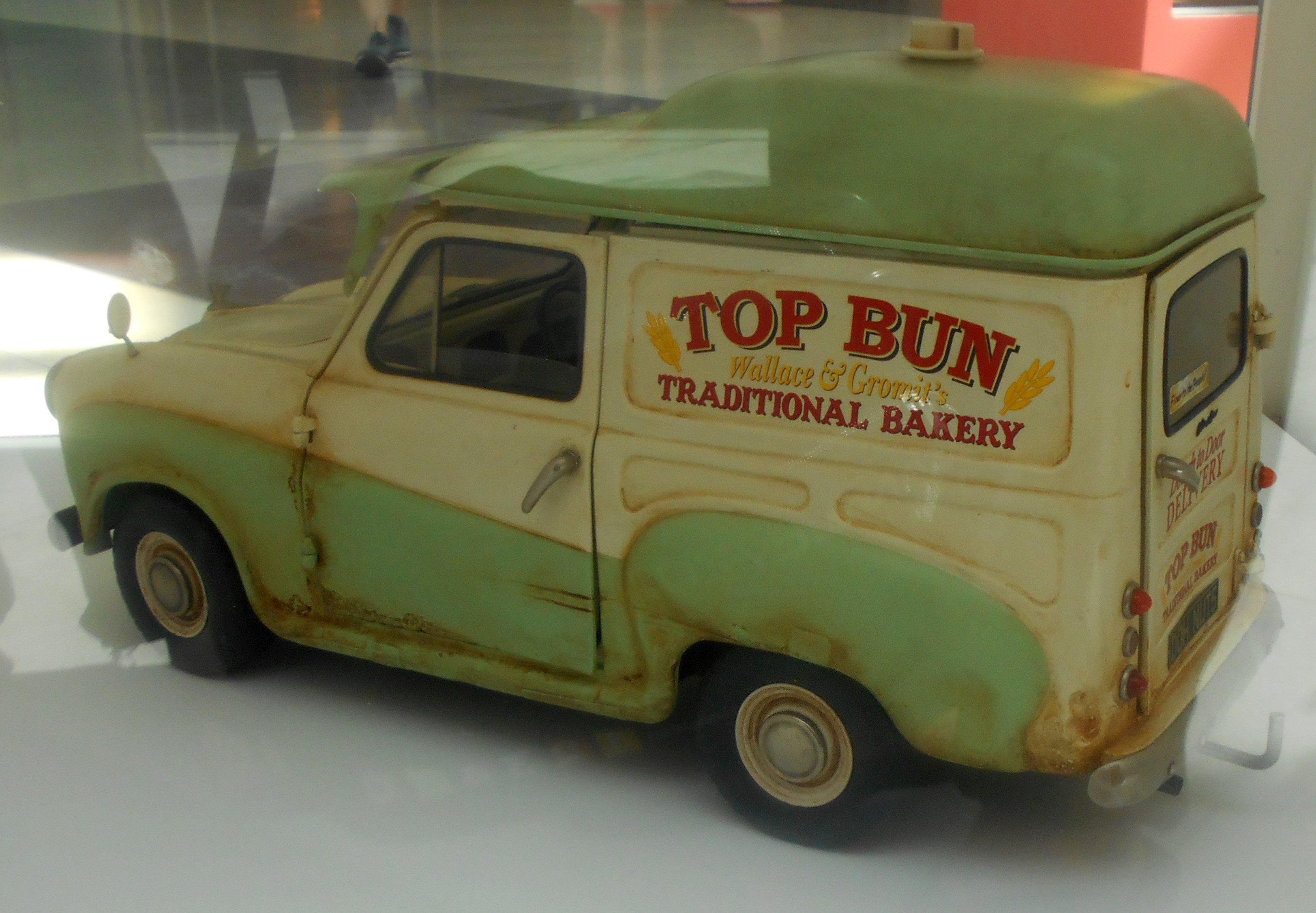 Prop from 2006's A Matter of Loaf and Death, on display at Annecy International Festival d'Animation, 2014.